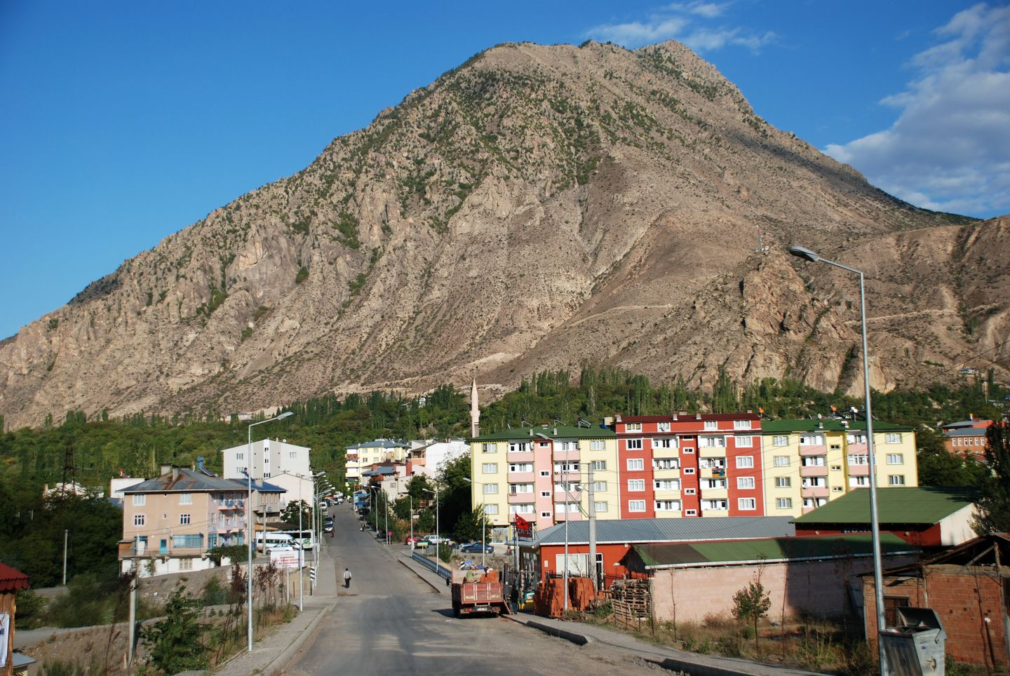 Uzundere, Tortum, Erzurum province